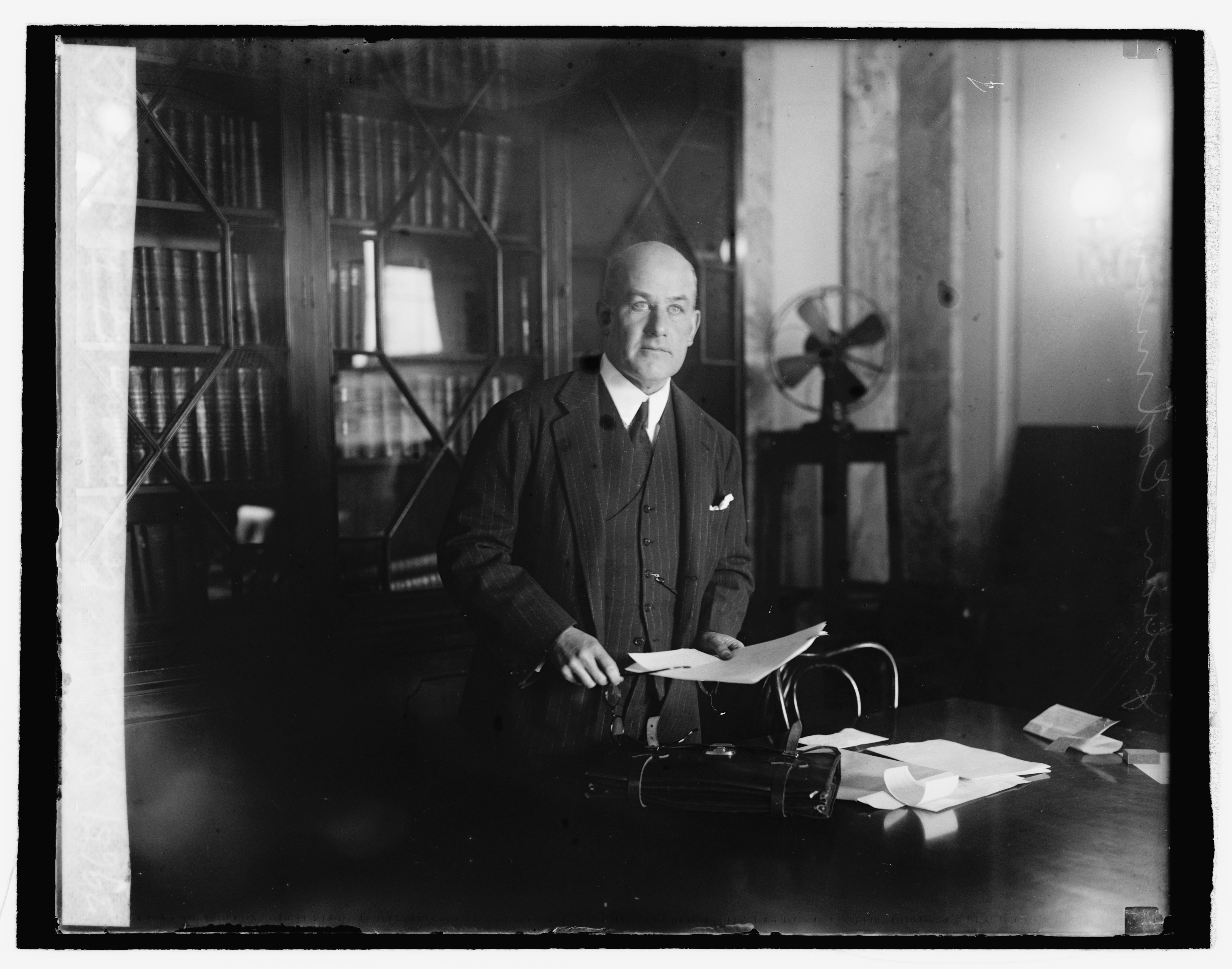 Title: Julian Codman of New York Abstract/medium: 1 negative : glass ; 4 x 5 in. or smaller